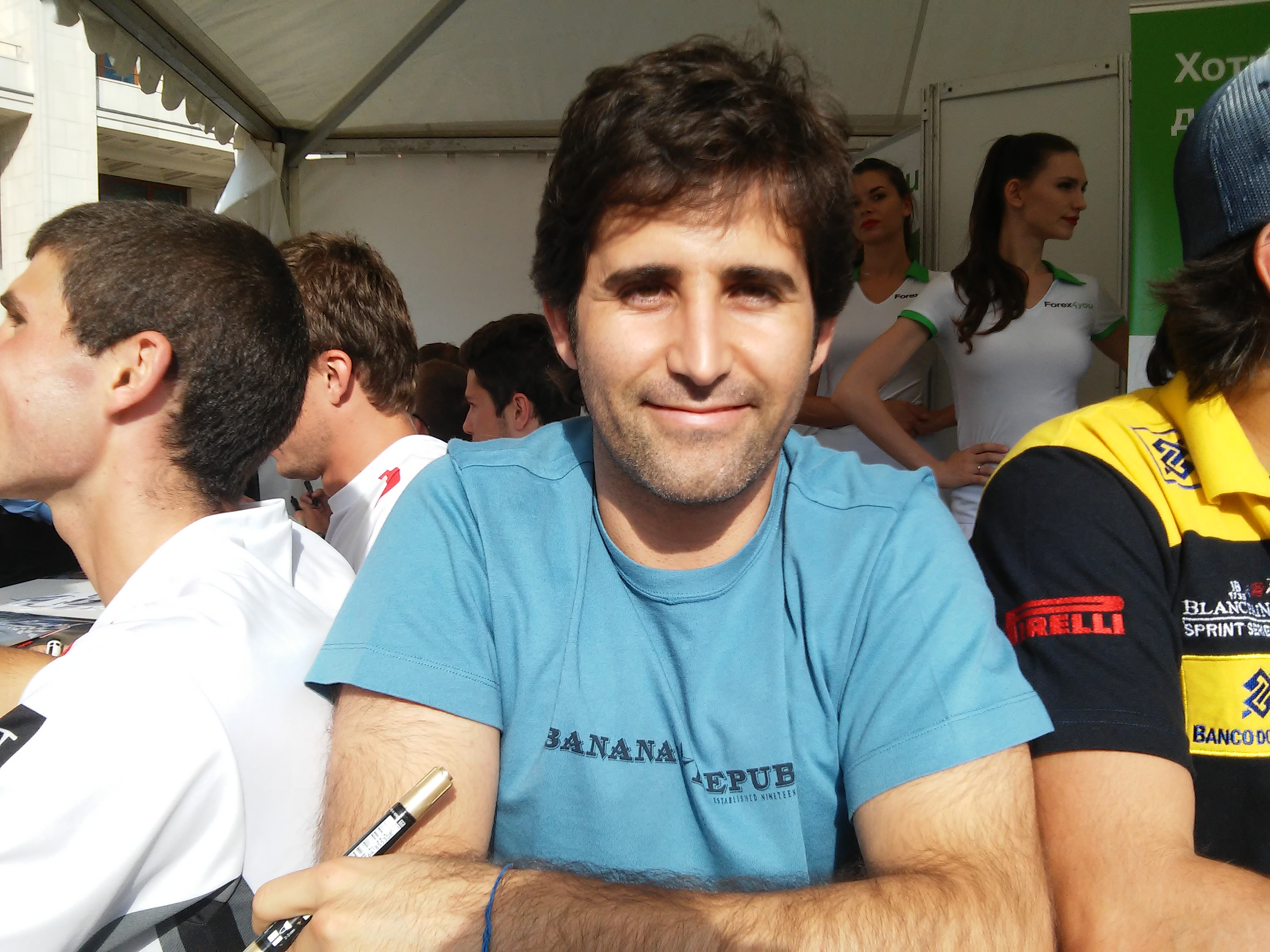 Sérgio Jimenez in Moscow